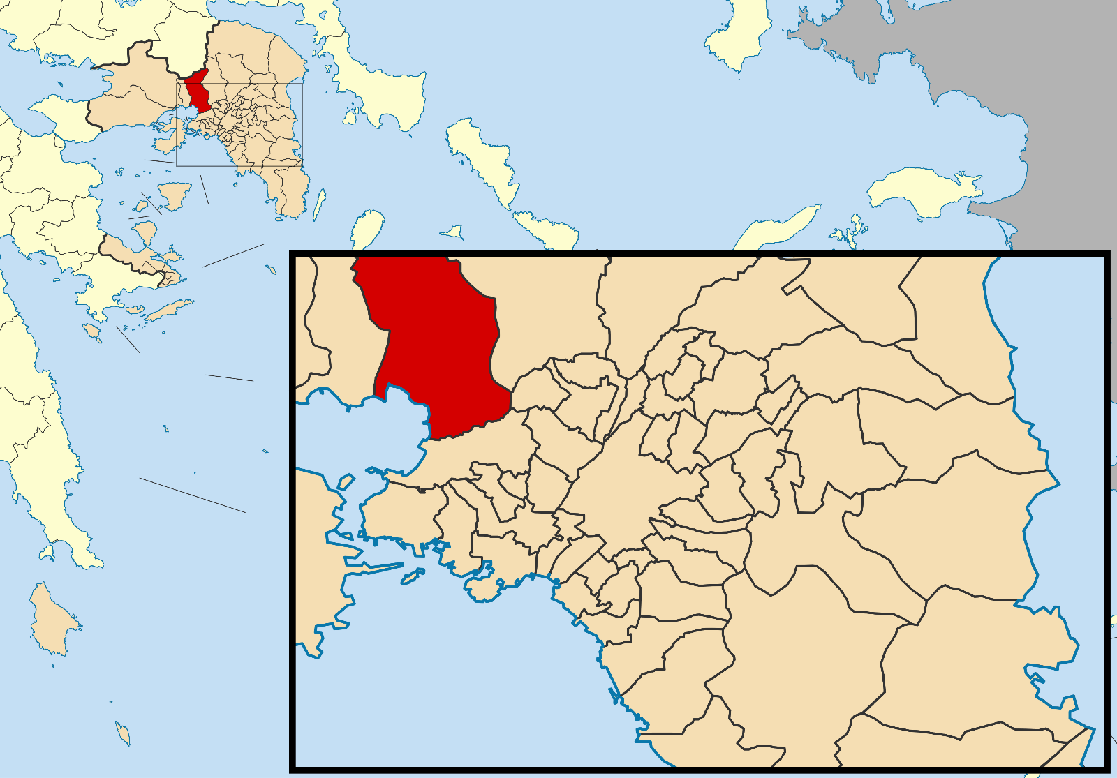 Locator map for Aspropyrgos municipality in Greek region Attica (2011)